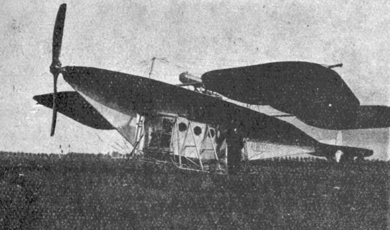 Albessard La Balancelle photo from L'Air October 1,1928